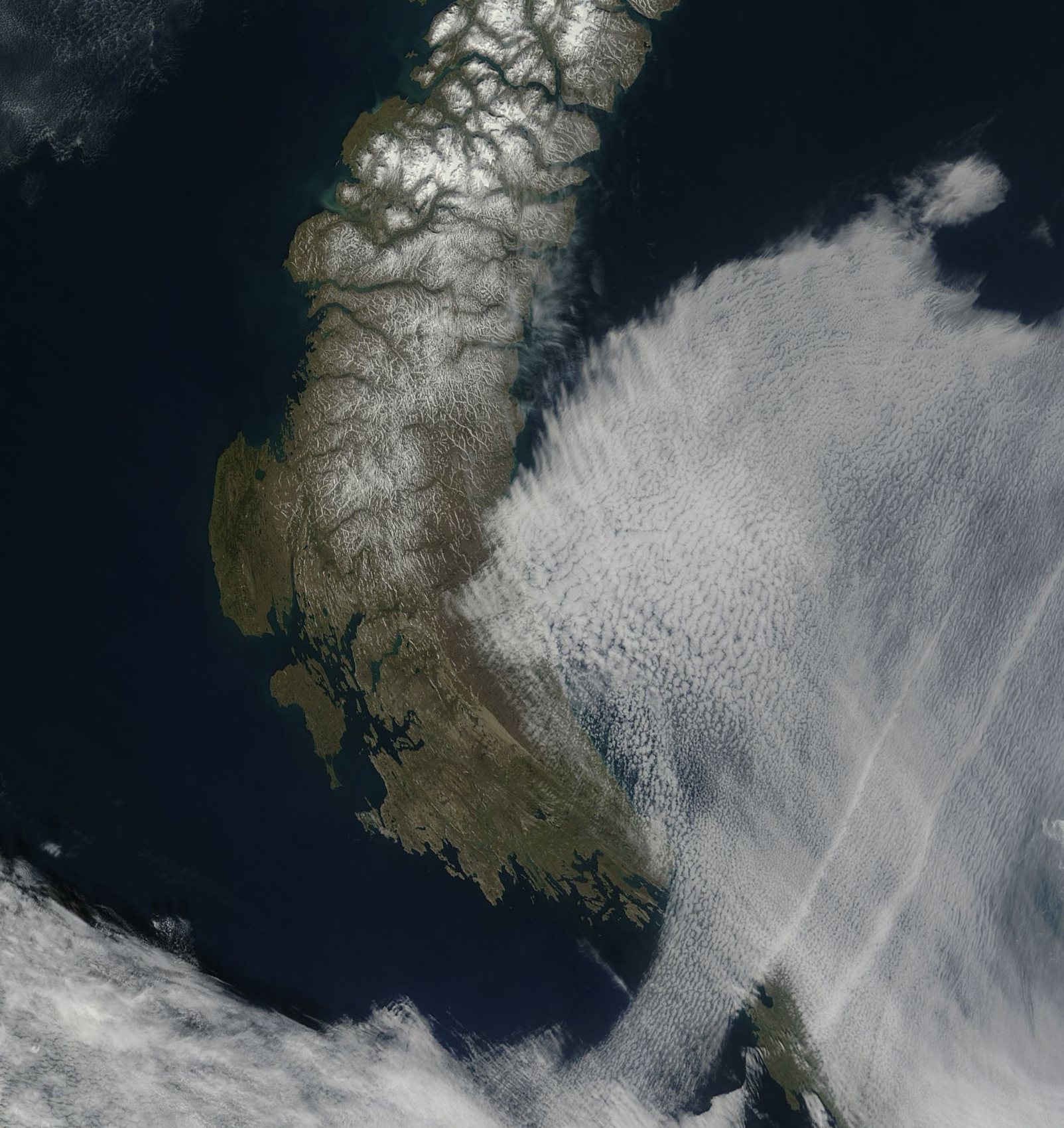 South Island of Novaya Zemlya